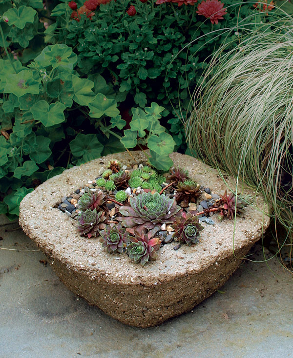 hypertufa container